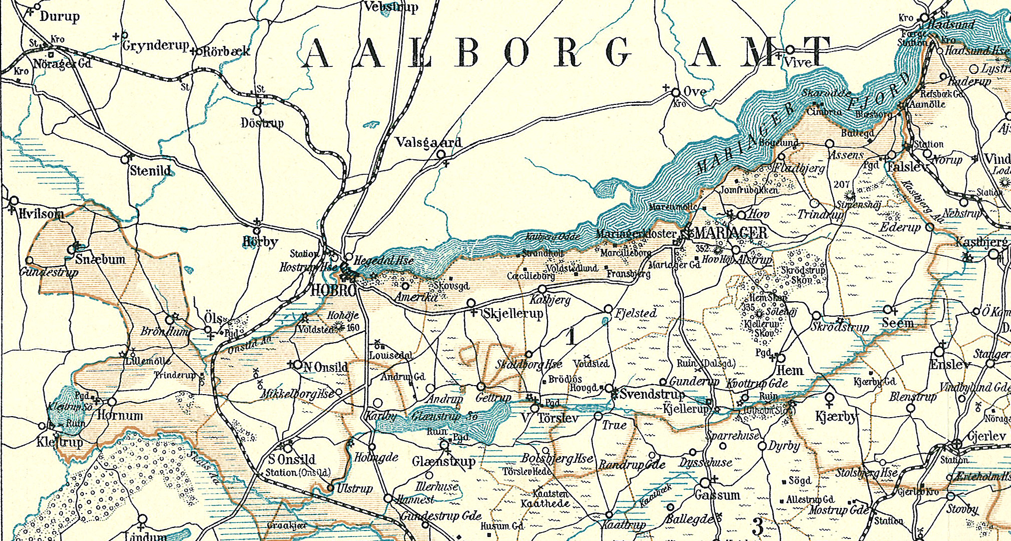 Map of Onsild Herred in the western part of Randers County in Denmark